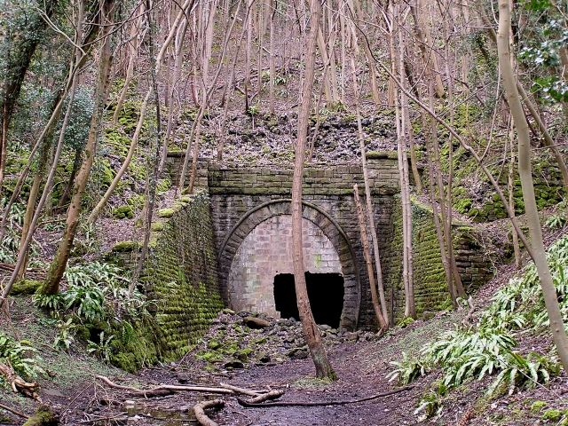 The Old Railway Tunnel under Coppett Hill. Built by the Ross and Monmouth Railway Company, this was for the Lydbrook Junction to Ross on Wye stretch.